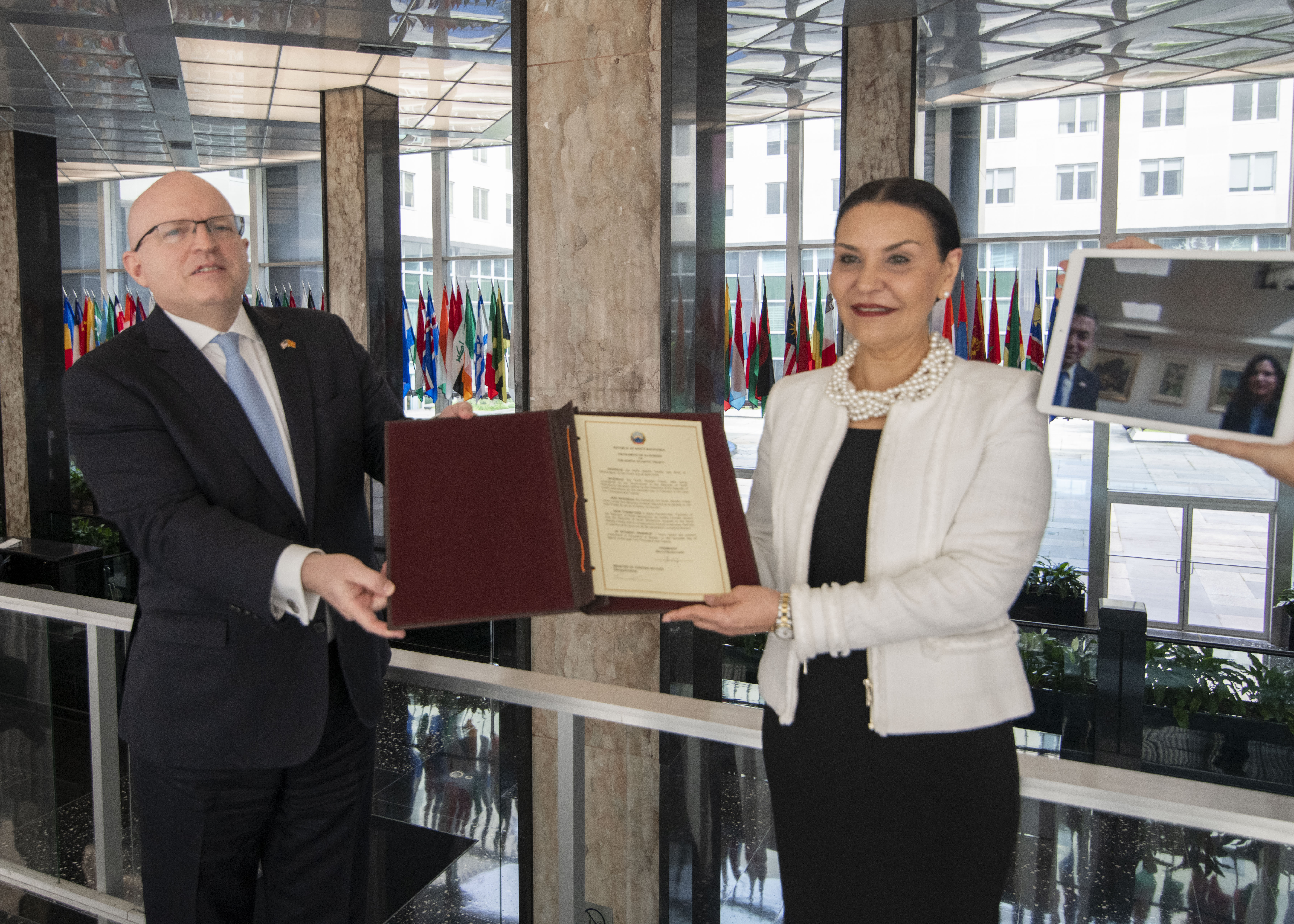 North Macedonia commemorates its NATO accession at the Department of State on March 27, 2020. [State Department photo by Freddie Everett/ Public Domain]